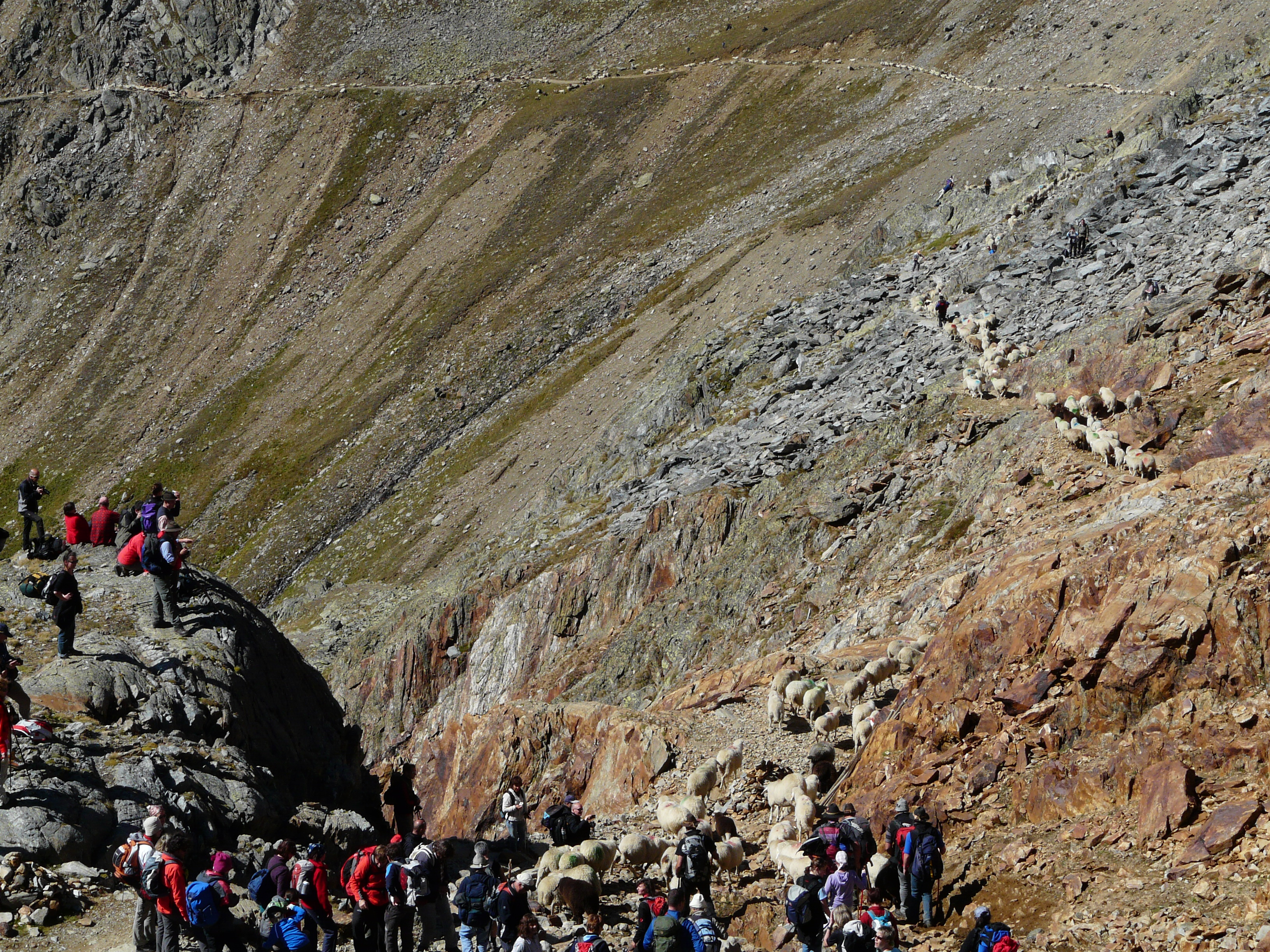 View from Schöne Aussicht Hütte: Driven Sheep to Schnalstal